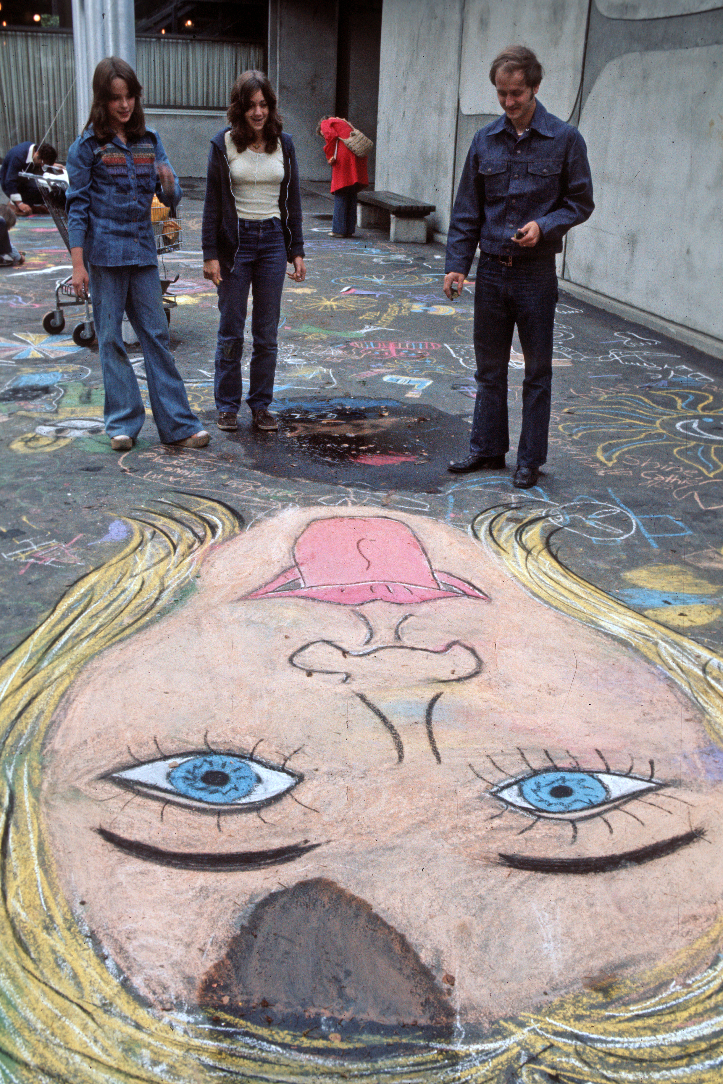 Chalk drawings at Bumbershoot festival, Seattle Center, Seattle, Washington, 1973. Item 77443, Bumbershoot Festival Records (Record Series 5807-05), Seattle Municipal Archives.